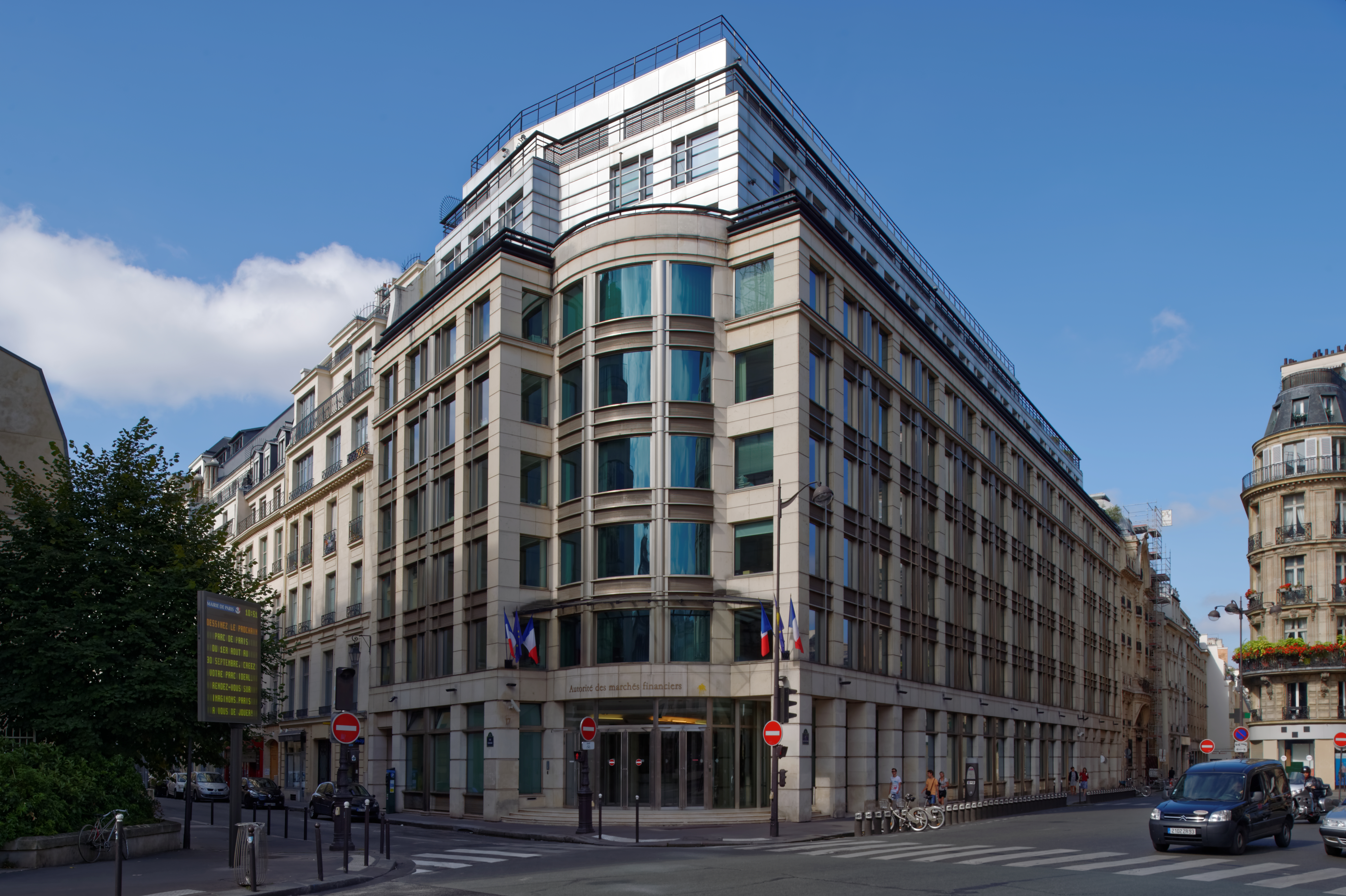 Headquarters of Autorité des Marchés Financiers, Paris, France